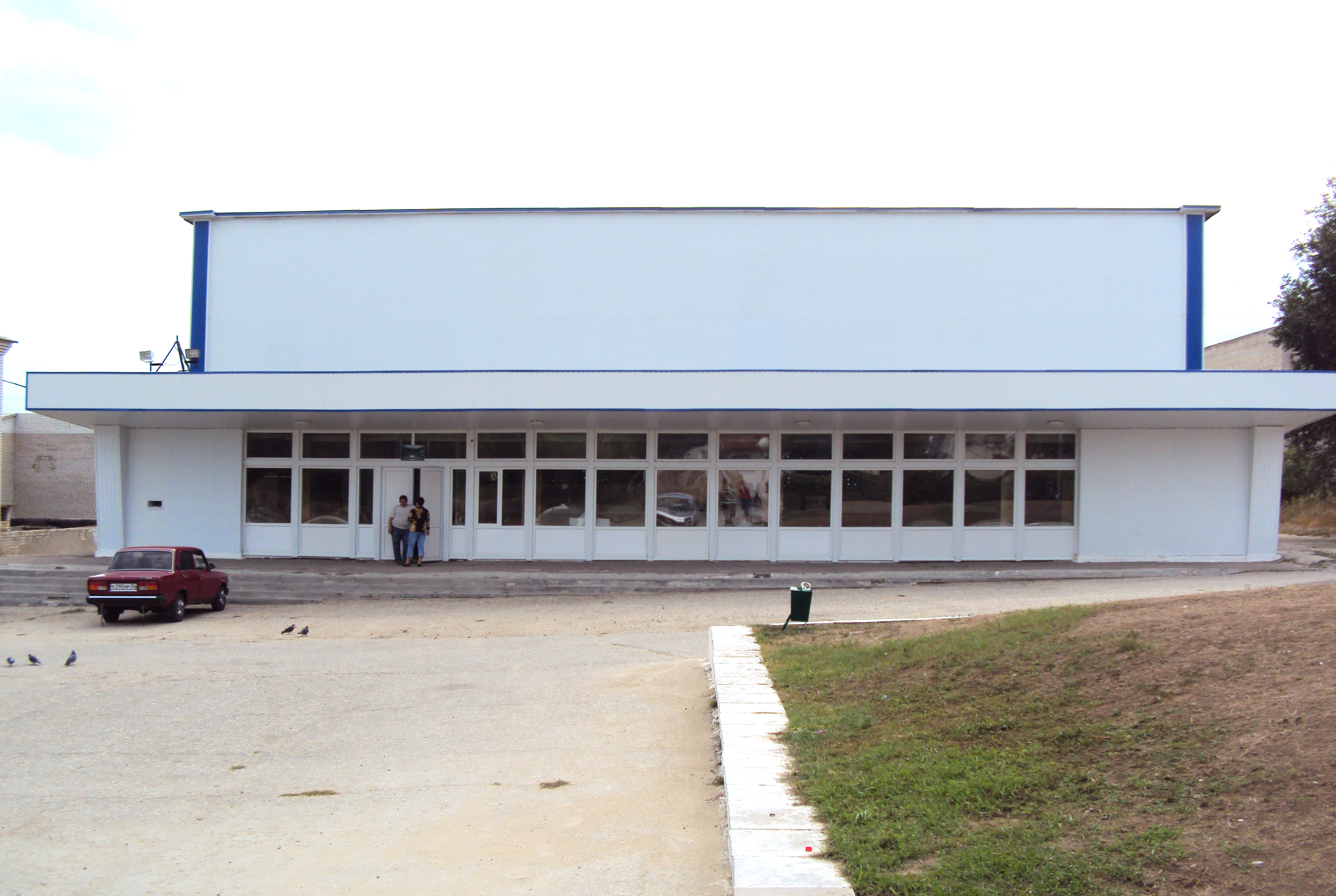 Cinema "Don".